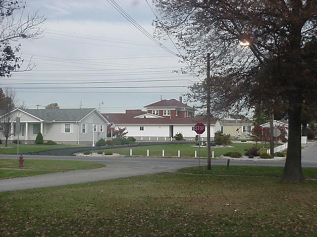 View of Carrier Mills, Illinois looking north from High School.